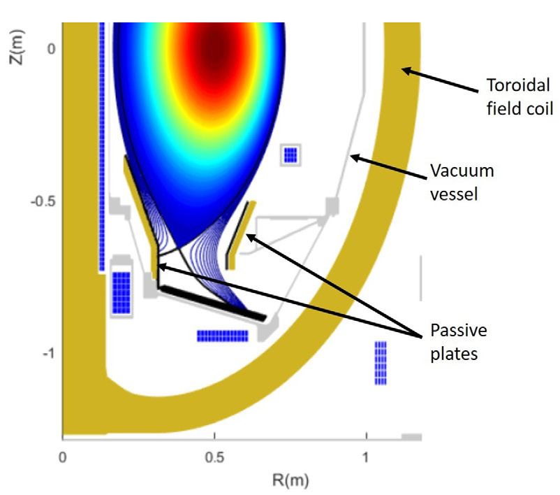 Model of the vacuum vessel and components of the ST40 tokamak of Tokamak Energy Ltd, Culham Science Centre. KINX simulations show that growth rates of the highly elongated (κ~2.6) plasma shown can be limited to e-fold times of ~20 ms by the passive plates (indicated), and can be stabilized by internal active feedback coils.